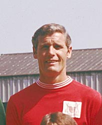 A postage stamp image of Nottingham Forest legend Bob Mckinlay